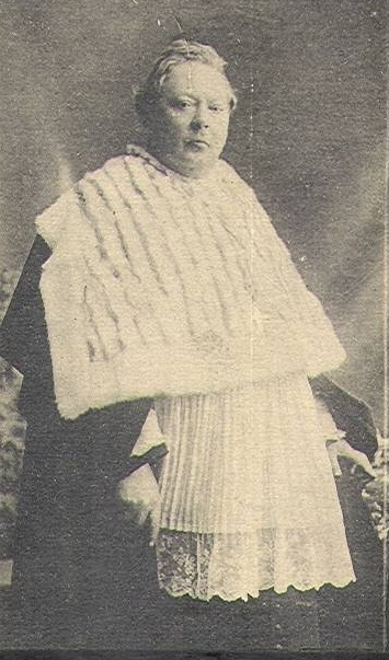 Hendrik Claeys (1868-1910), Belgian Canon Winter Choir Dress